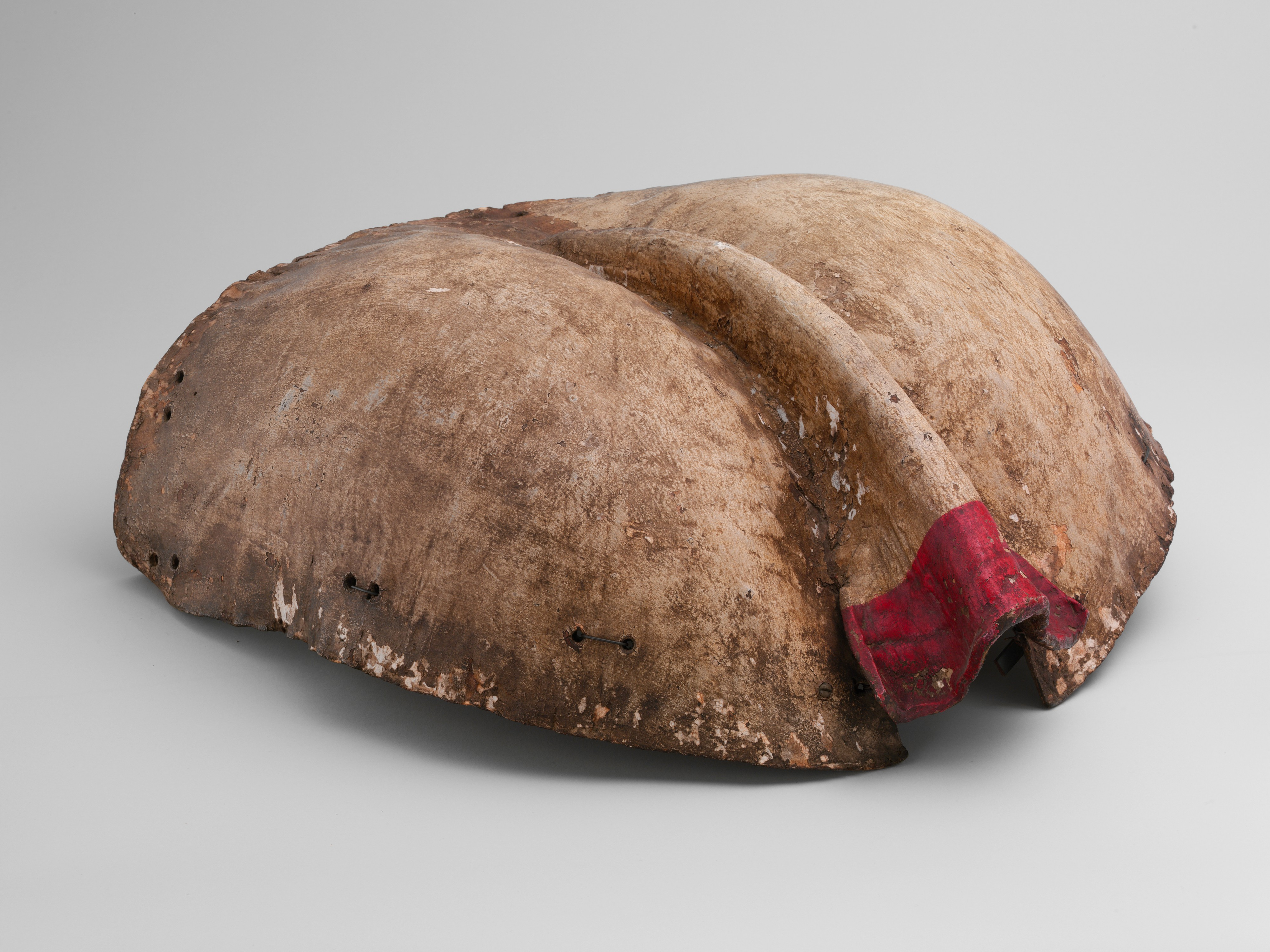 Possibly Flemish or German; Crupper plate; Armor for Horse